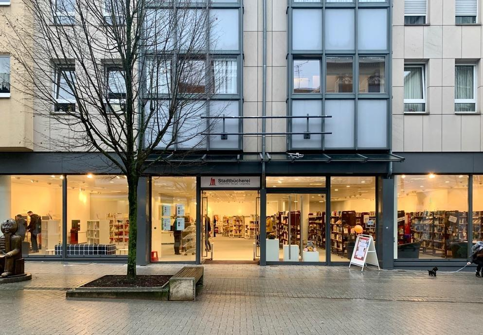 City Library Velbert